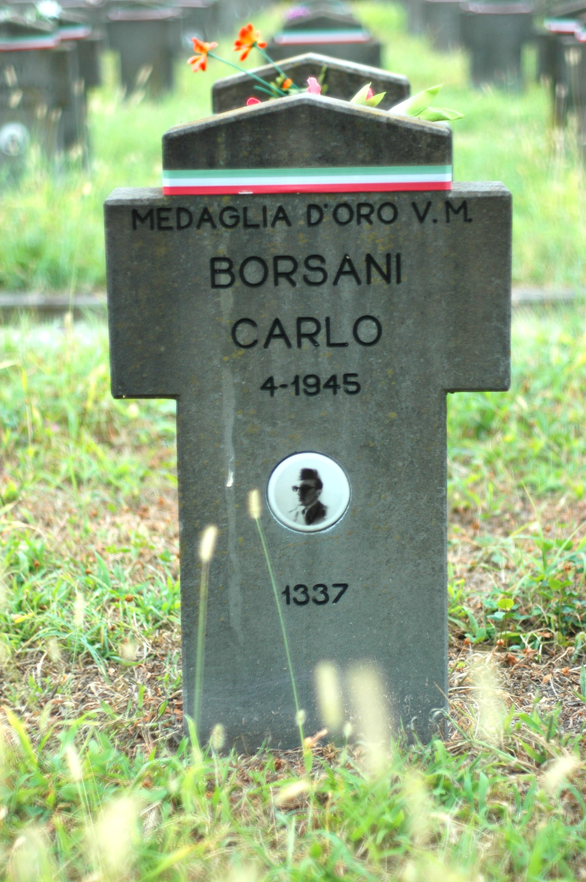 Carlo Borsani Grave in the Campo X of the Cimitero Maggiore in Milan